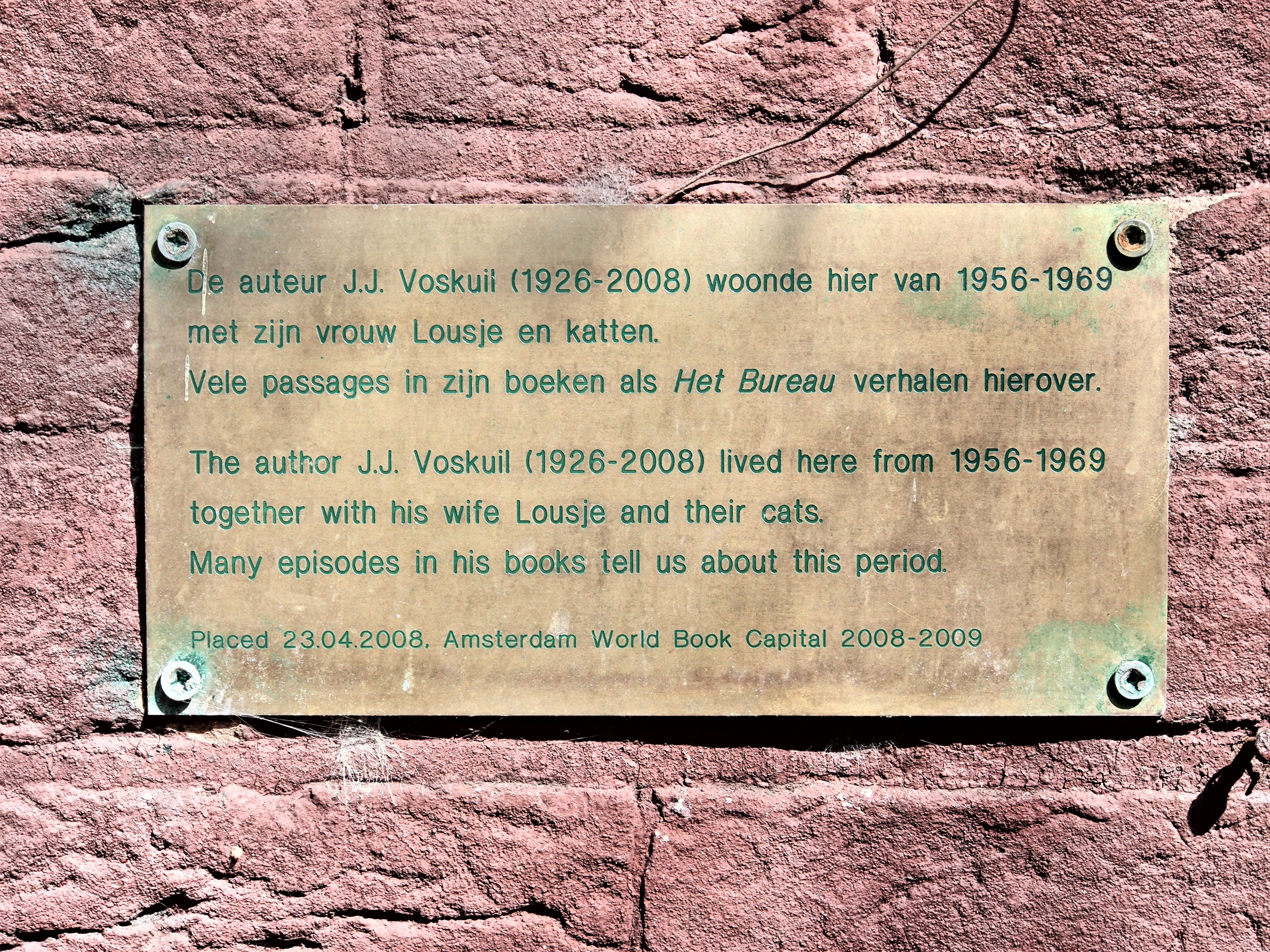 Photographed in Amsterdam.